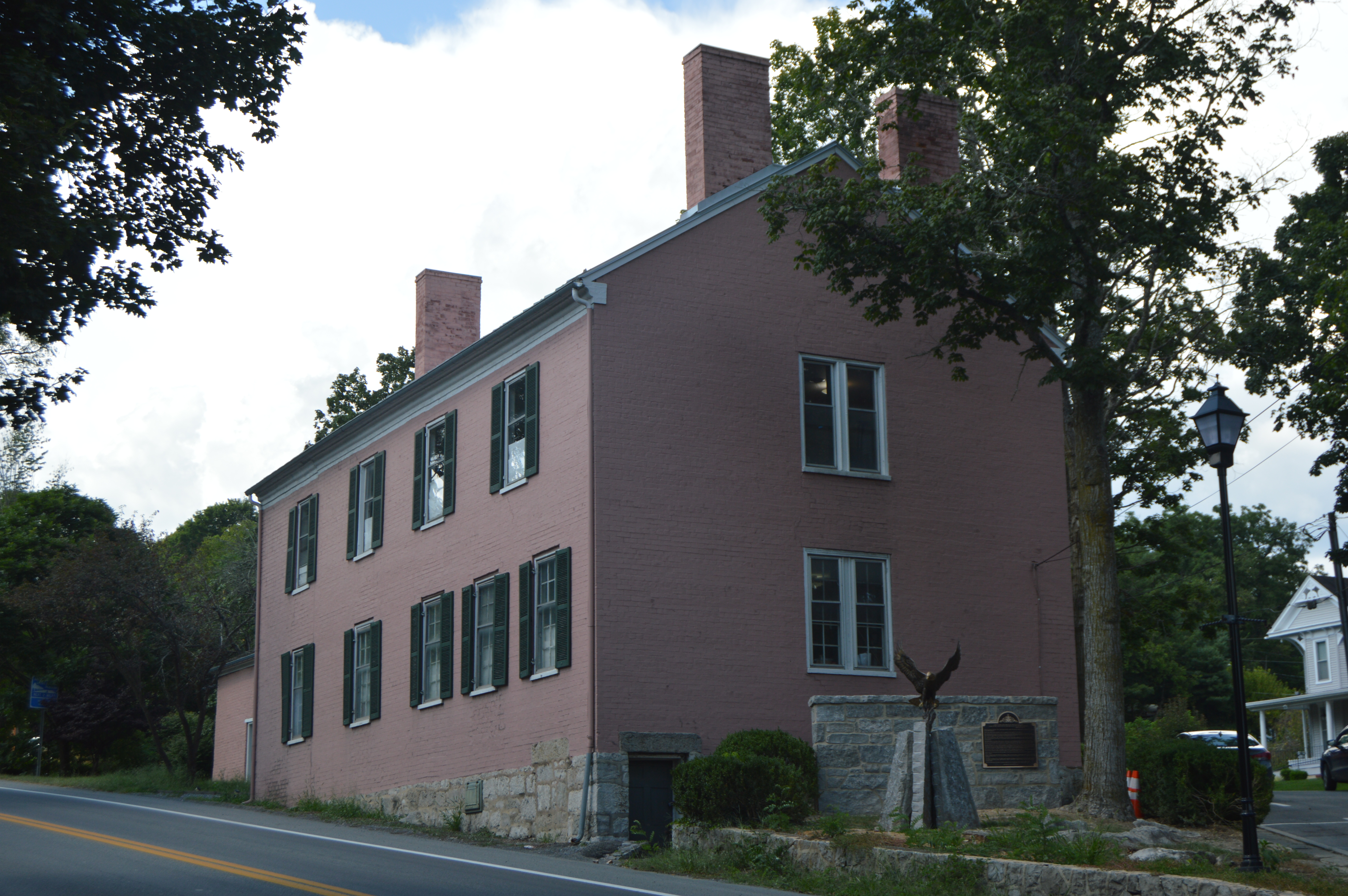 Front and southeastern end of the Supreme Court Library Building, located on W. Washington Street (U.S. Route 60) at Courtney Drive in Lewisburg, West Virginia, United States. Built in 1834, it is listed on the National Register of Historic Places.